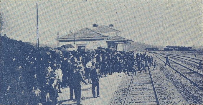 Inauguration ceremony of the section between Cumeadas and Santiago do Cacém, in the Sines Railway, in Portugal, on the 21st June 1934. This photograph was taken in the Santiago do Cacém Railway Station, after the departure of the inaugural train. This photograph was published on the Gazeta dos Caminhos de Ferro magazine No. 1117, of the 1st July 1934, and scanned by the Hemeroteca Municipal de Lisboa.